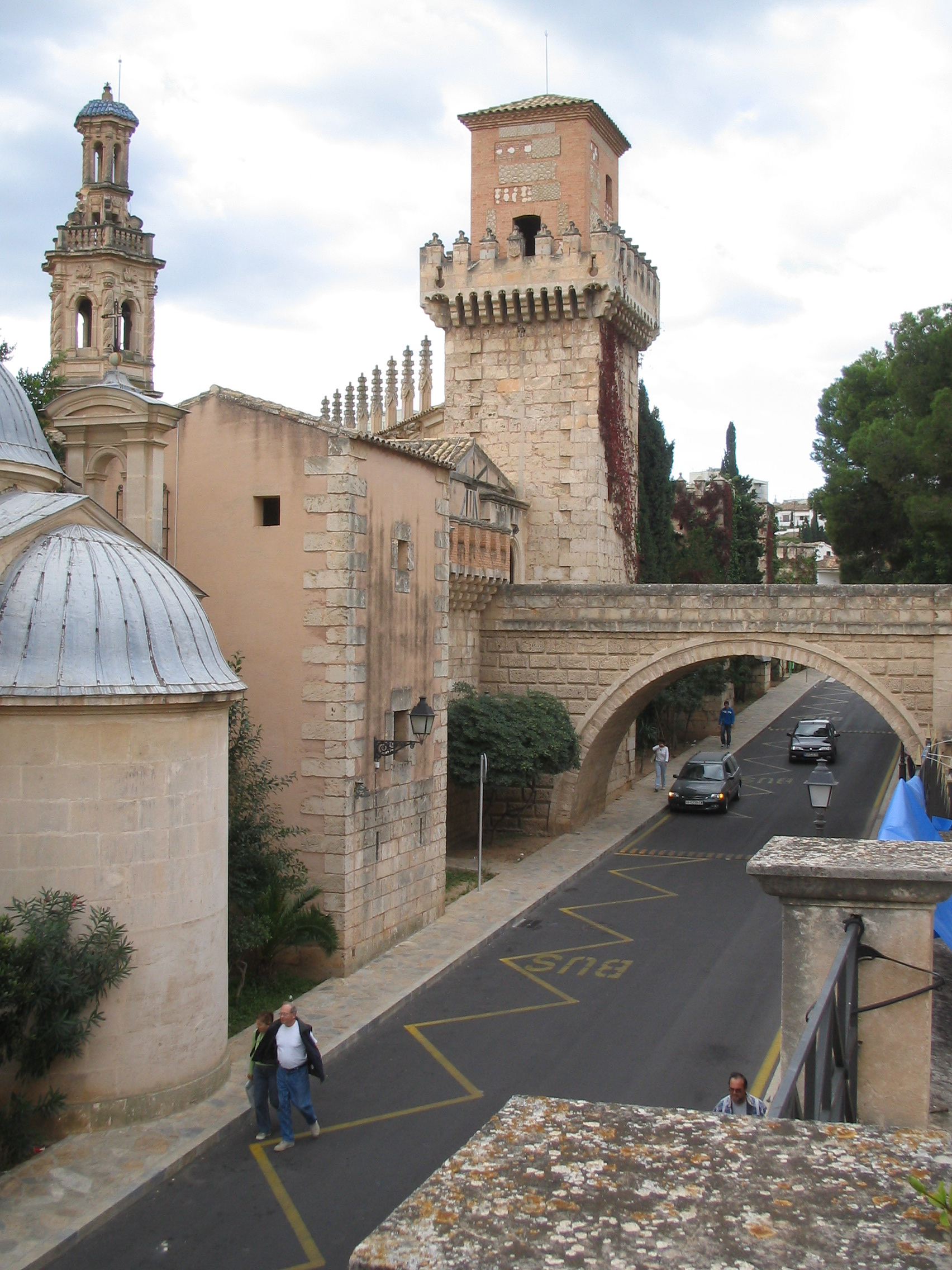 A tourist attraction called The Spanish village(El Pueblo español) in Mallorca, Spain.